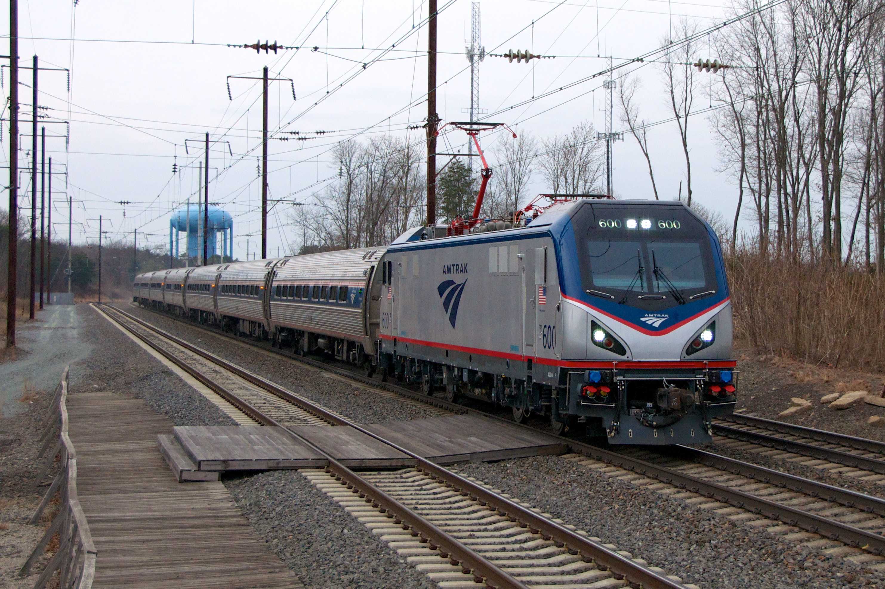 After getting blocked last night, I finally get Amtrak's newest locomotive, ACS-64 #600 as it leads train 152 through Odenton on its second revenue run.